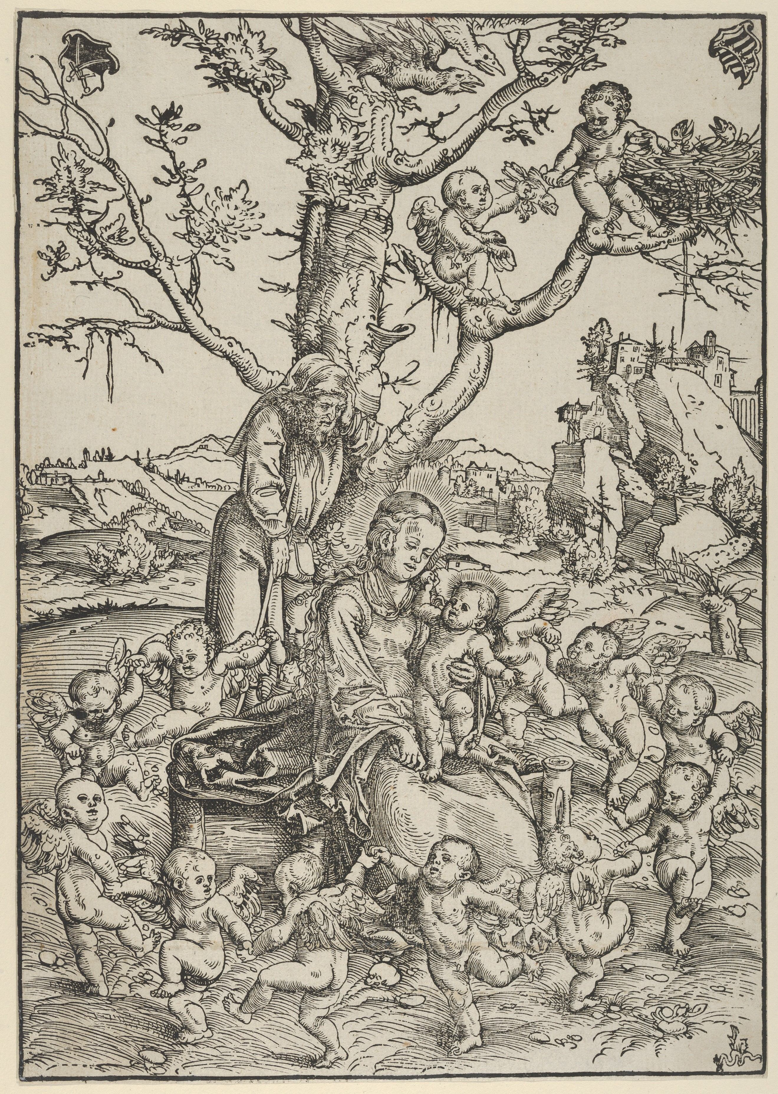 Print; Prints